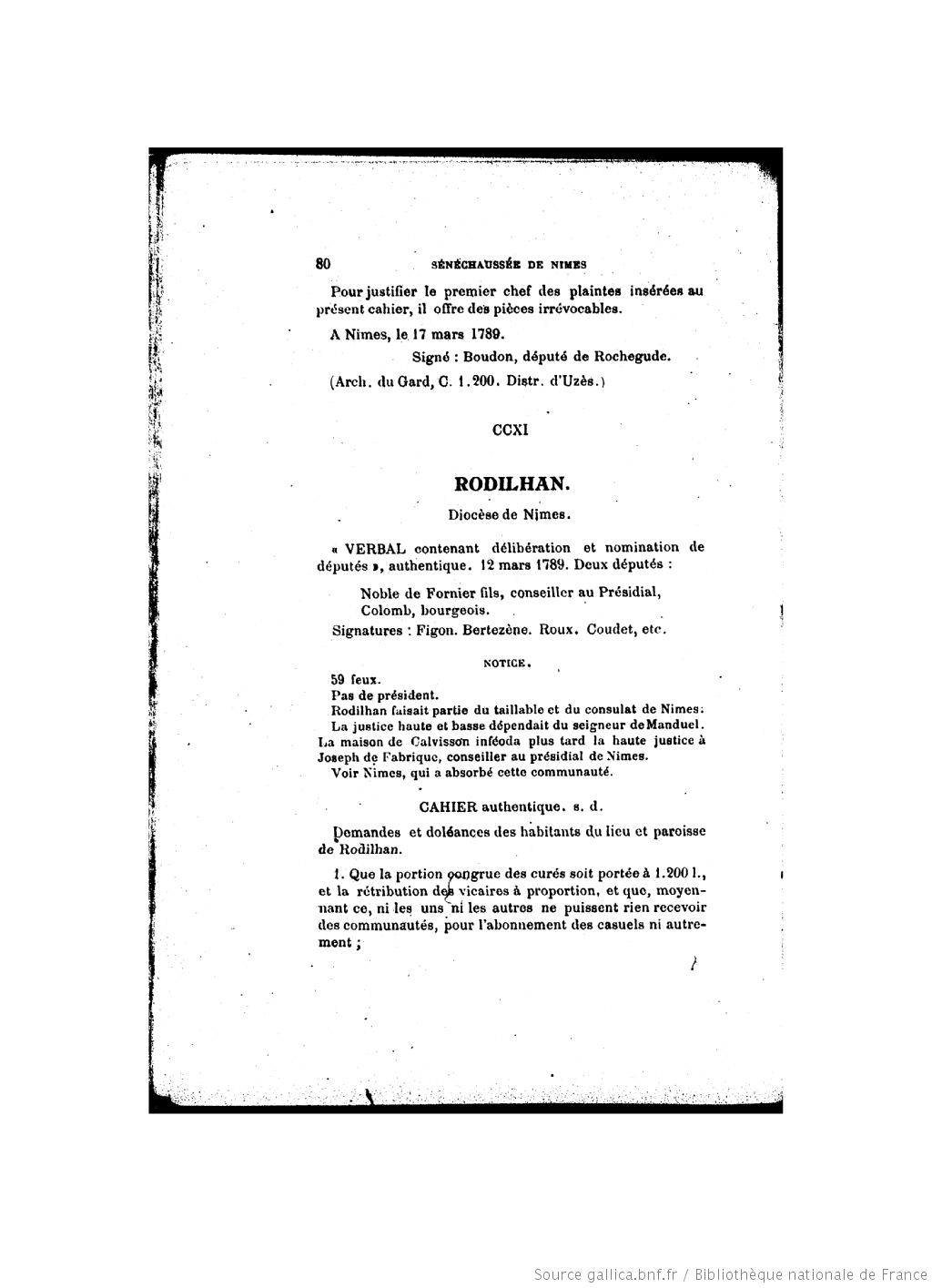 The first page of the cahiers de doléance coming from Rodilhan, département Gard